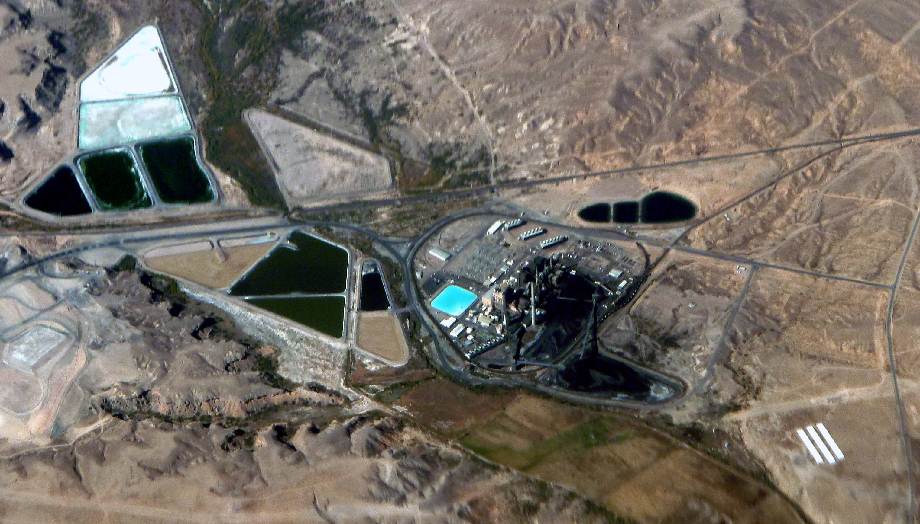 Aerial photograph of the Nevada Power Company's Reid Gardner Generating Station near Moapa, Nevada, USA.